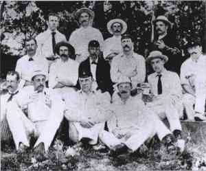 Taken from but the copyright has expired. This is the 1888/9 England team that played in the first Test at Port Elizabeth, Back: J H Roberts, M Read, F Hearne, J Briggs Middle: A J Fothergill, H Wood, Major Warton, CA Smith (captain), Hon C J Coventry, B A F Grieve. Front: E McMaster, MP Bowden, A C Skinner, R Abel